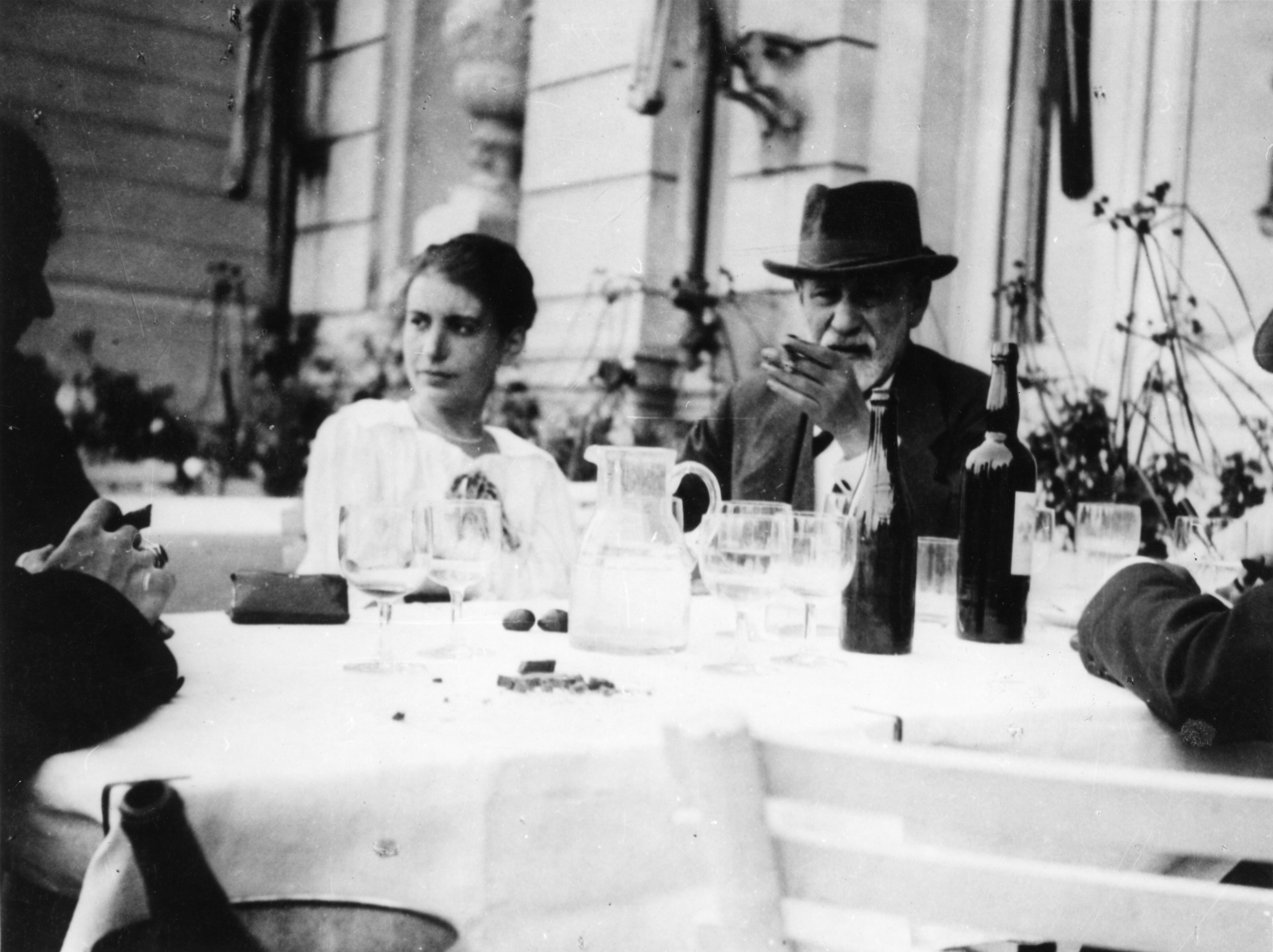 Sigmund und Anna Freud,VI International Psychoanalytical Congress, The Hague 1920